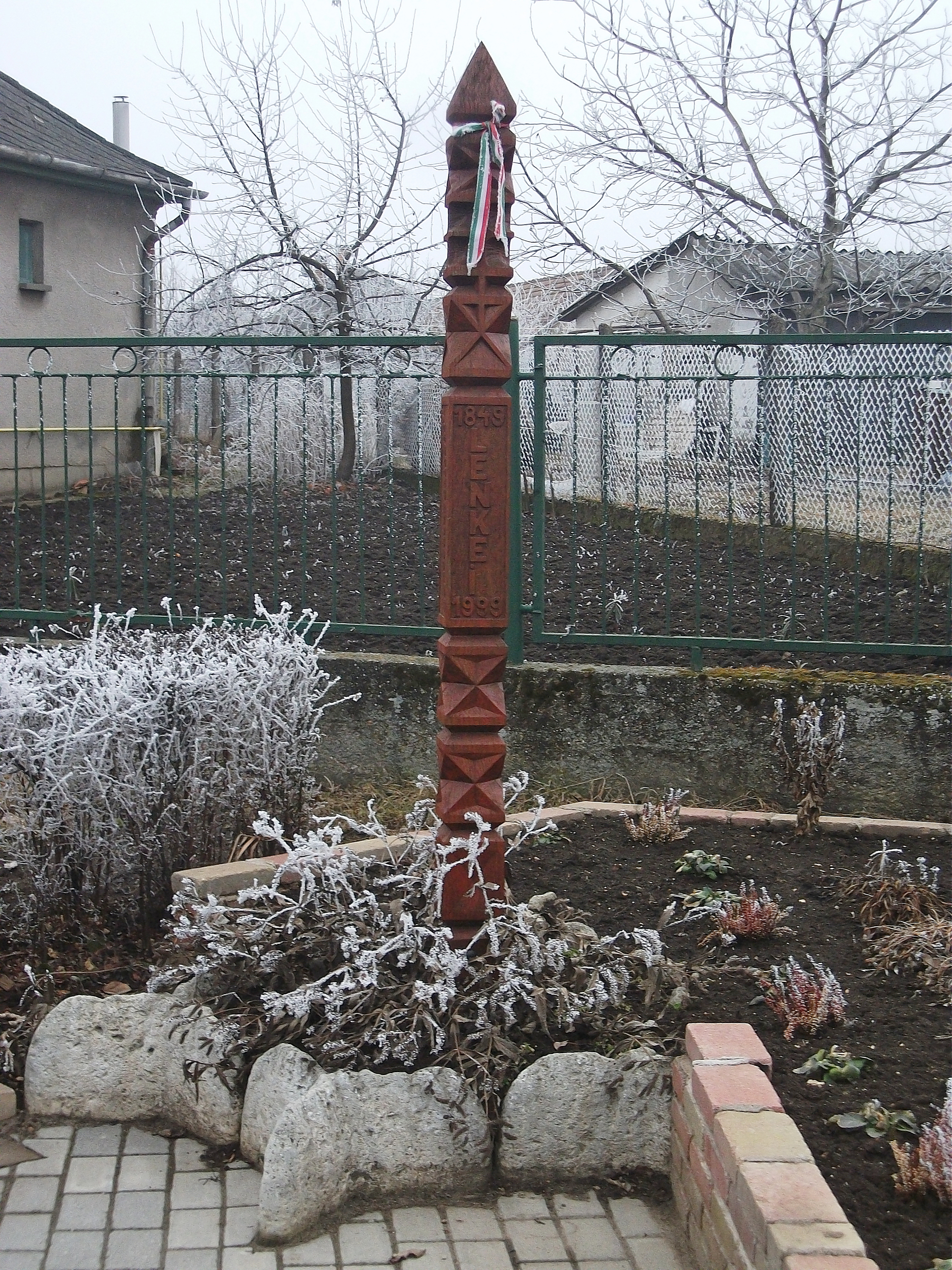 Lenkey-kopjafa in Zichyújfalu, Hungary.